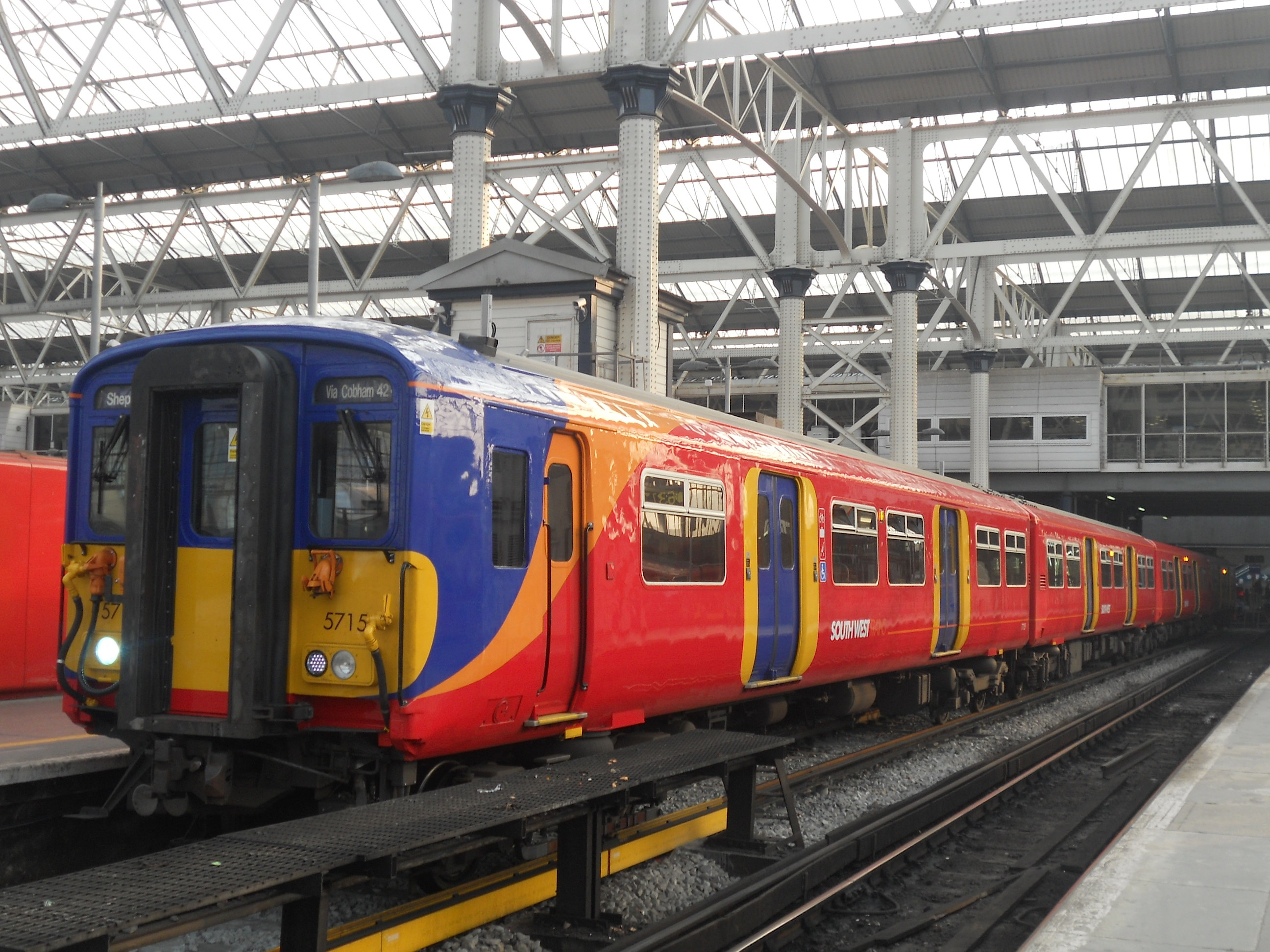 South West Trains refurbished Class 455/7 No. (45)5715 at London Waterloo